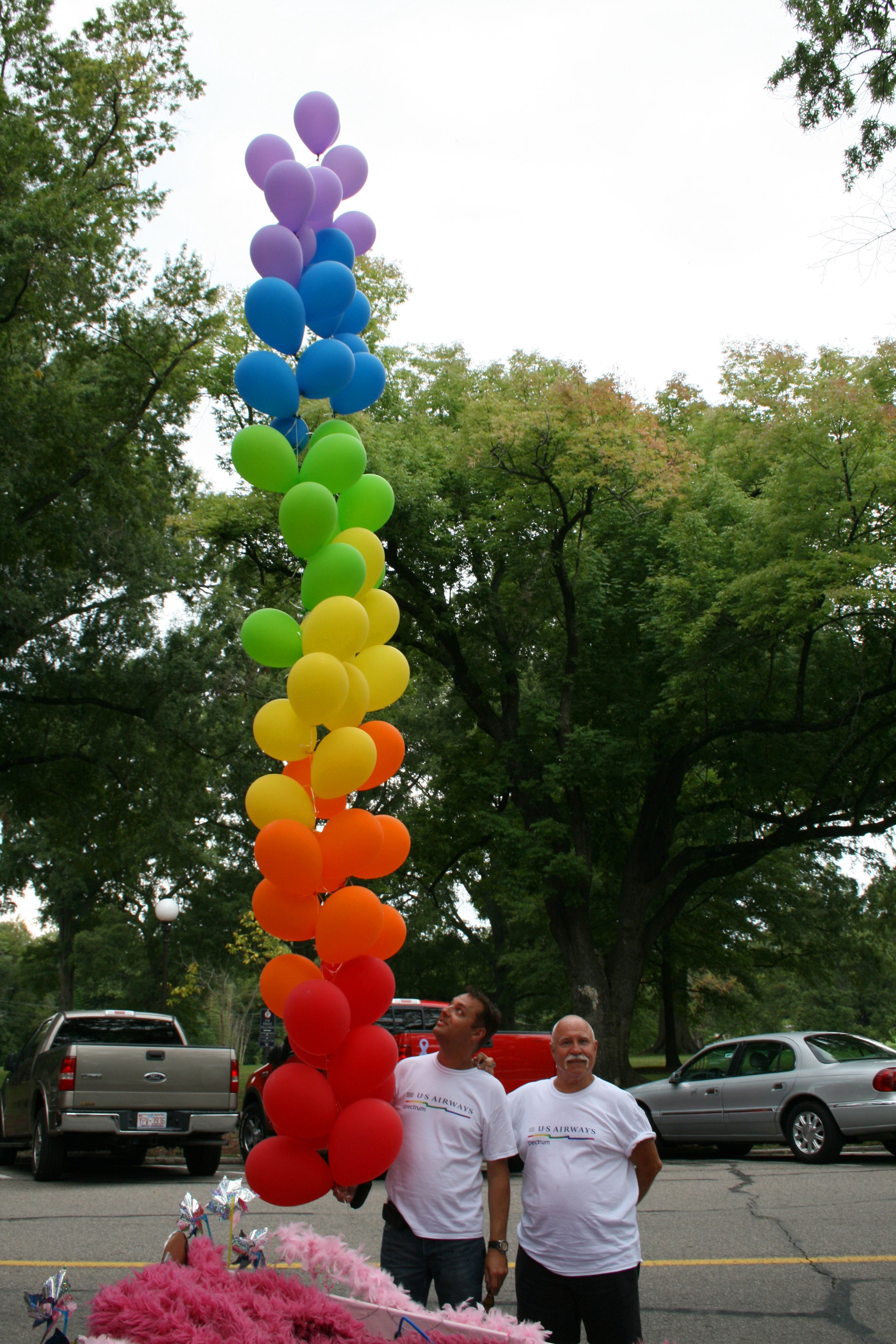 Two men displaying a long string of balloons at the 24th Annual North Carolina LGBT Pride pade in Durham, North Carolina.